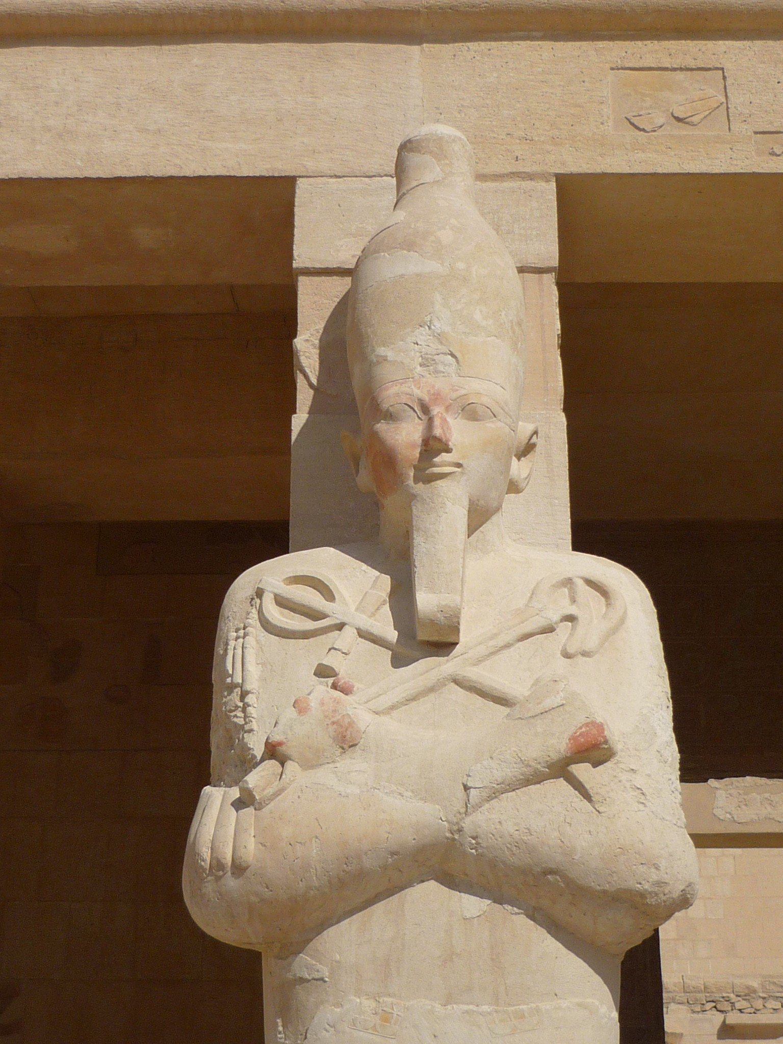 Hatshepsut statue, Hatshepsut temple, Deir el-Bahari, Theban Necropolis, Egypt